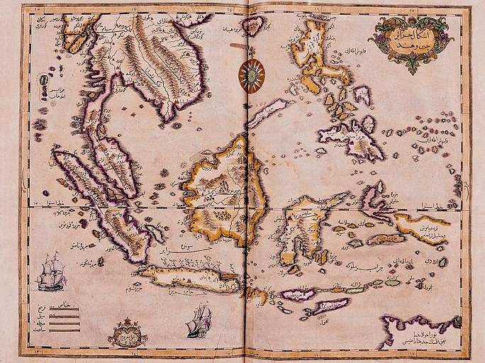 Indonesian map from world atlas made by the famous geographer Katip Çelebi, published circa 1674-1745 by Ibrahim Muteferrika